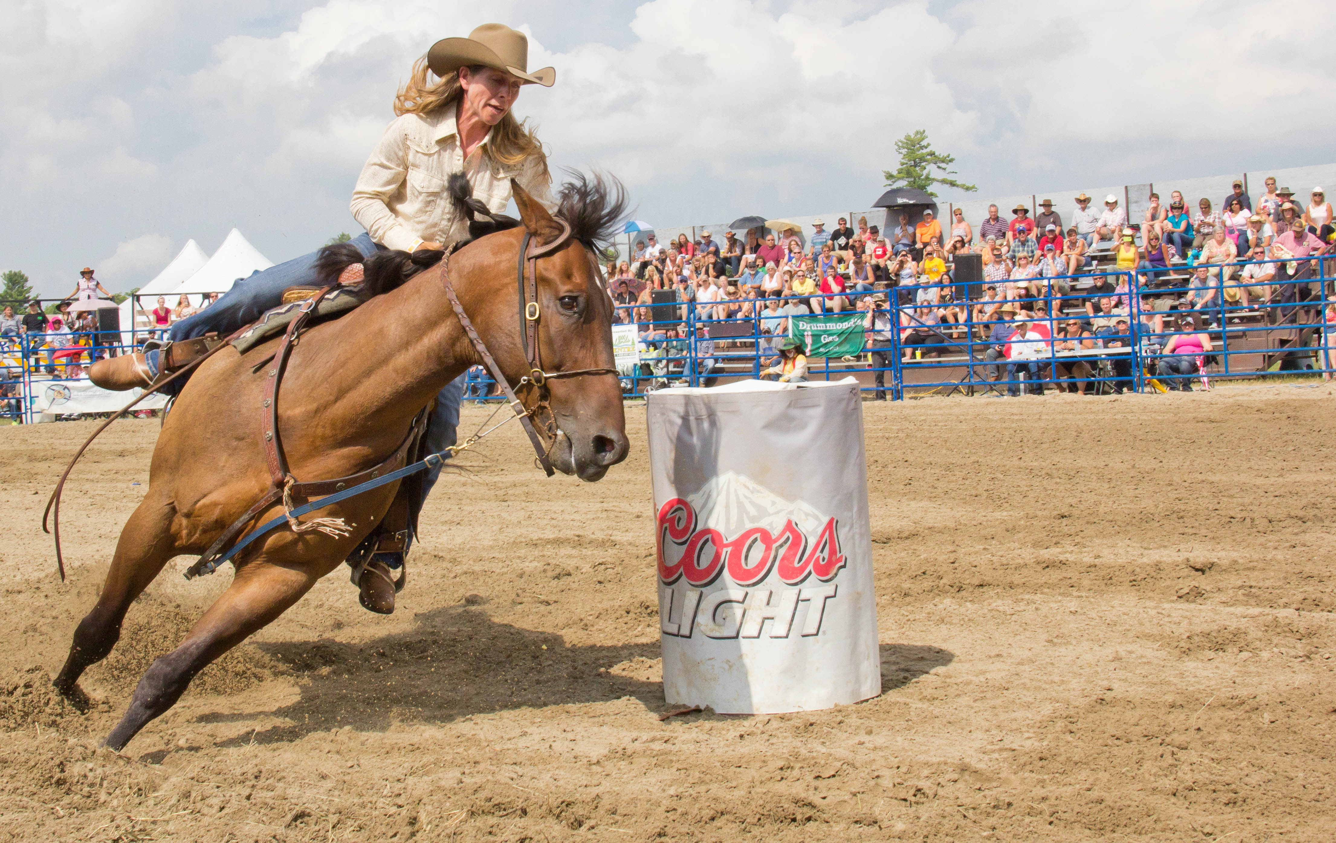 Spencerville Stampede, Jully 2014